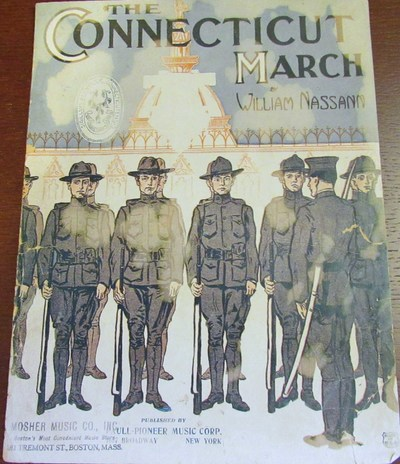 Cover Art